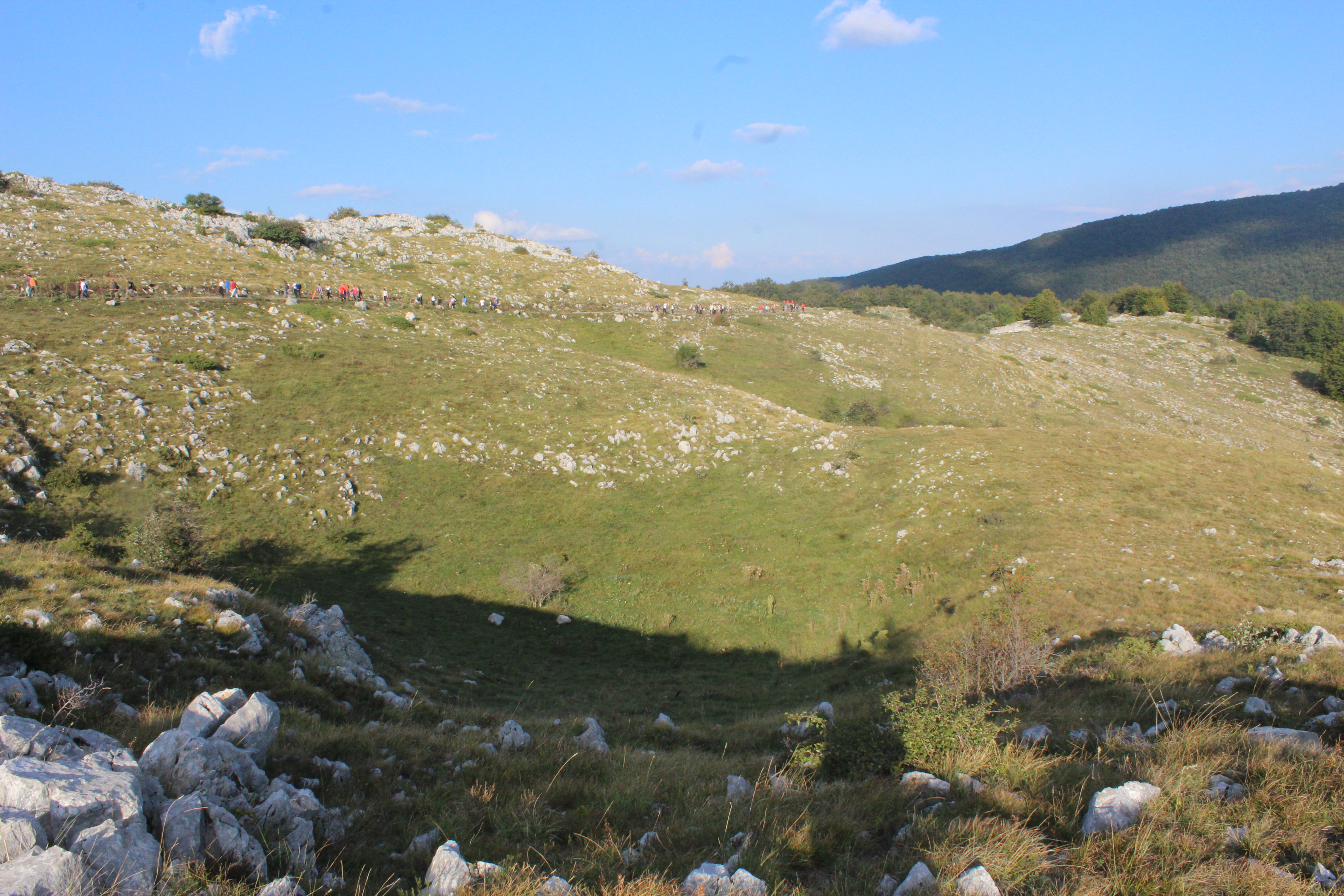 Sinkhole in the karst of the Suva mountain. Srpski (latinica): Vrtača u krasu Suve planine.